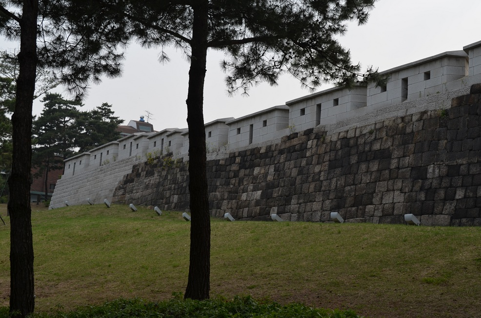 Ganghuimun Gate, also known as Southeast Gate or Namsomun, Seoul, South Korea. Photographed May 12, 2012. Photo shows stonework of portion of Fortress Wall of Seoul which connects with gate.